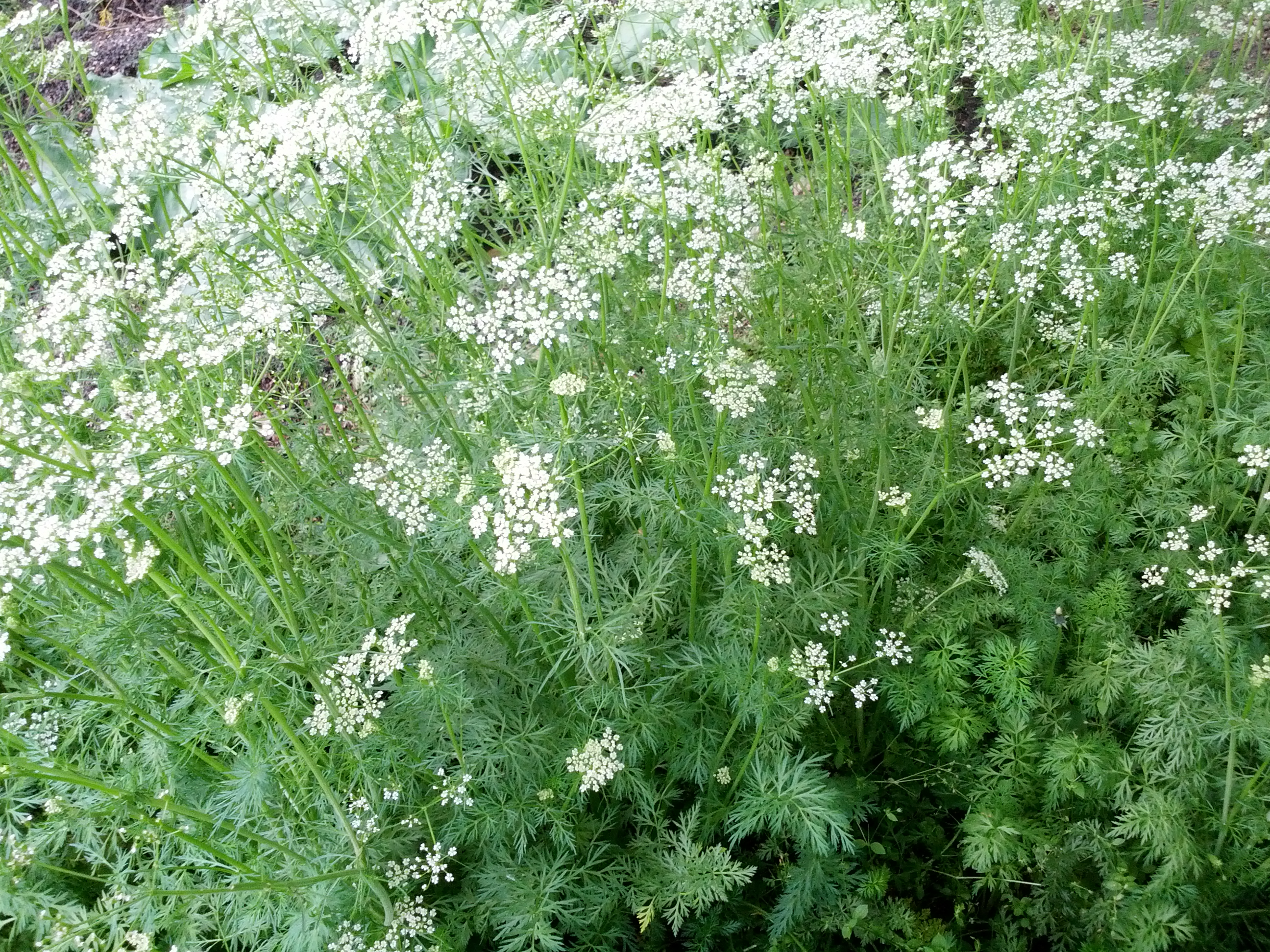 Cumin